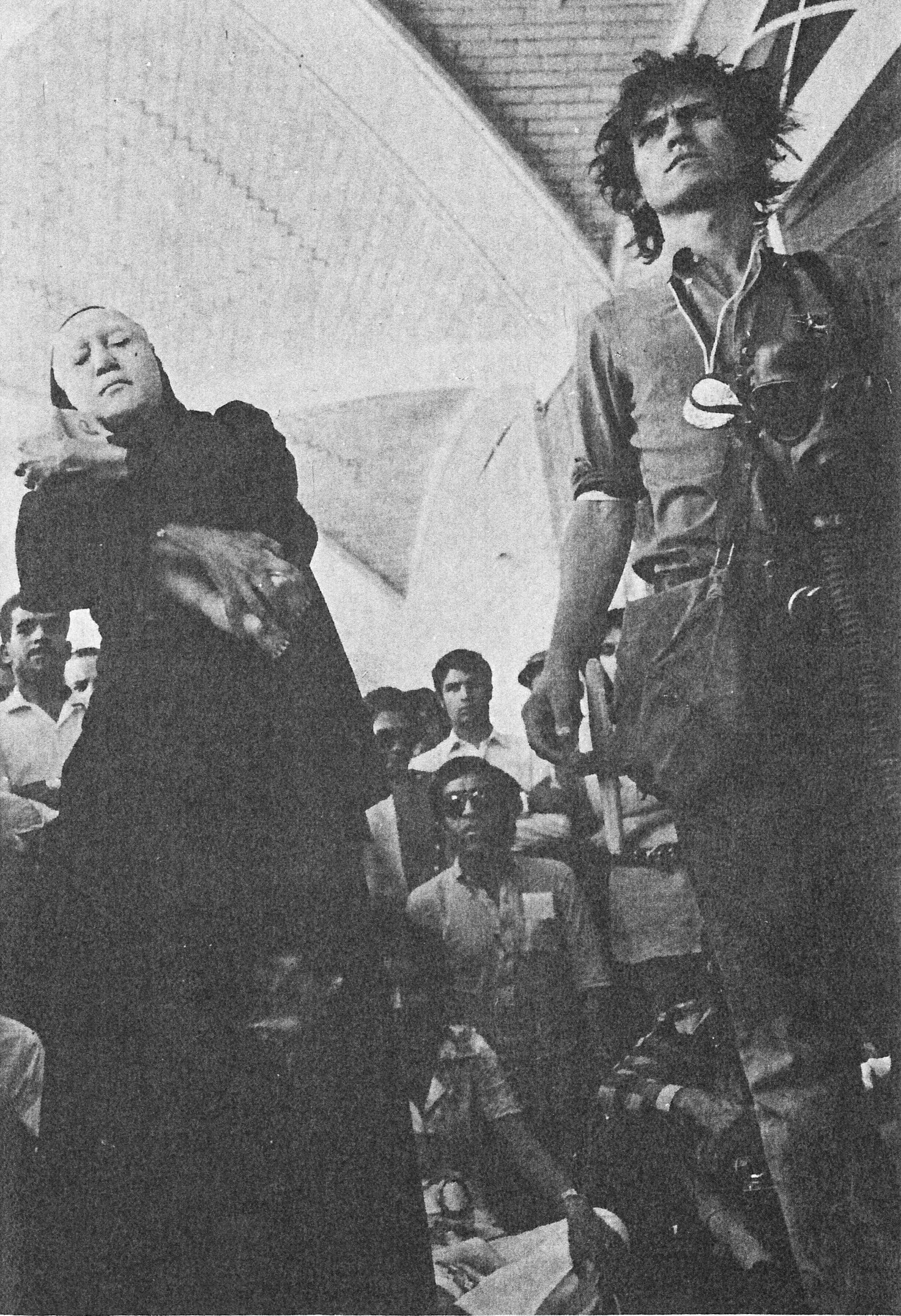 Shiraz Art Festival, theater company "Bread and Puppet", 1969